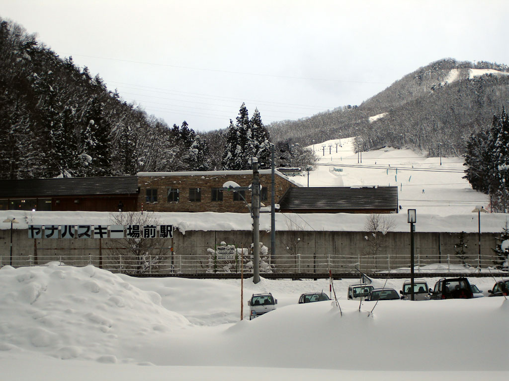 Yanaba-Ski-jo-mae Station on Oito Line, December 2005